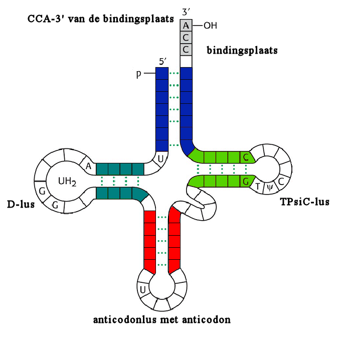 tRNA molekuli sekundaarstruktuur. txt nl. Dutch txt by Rasbak